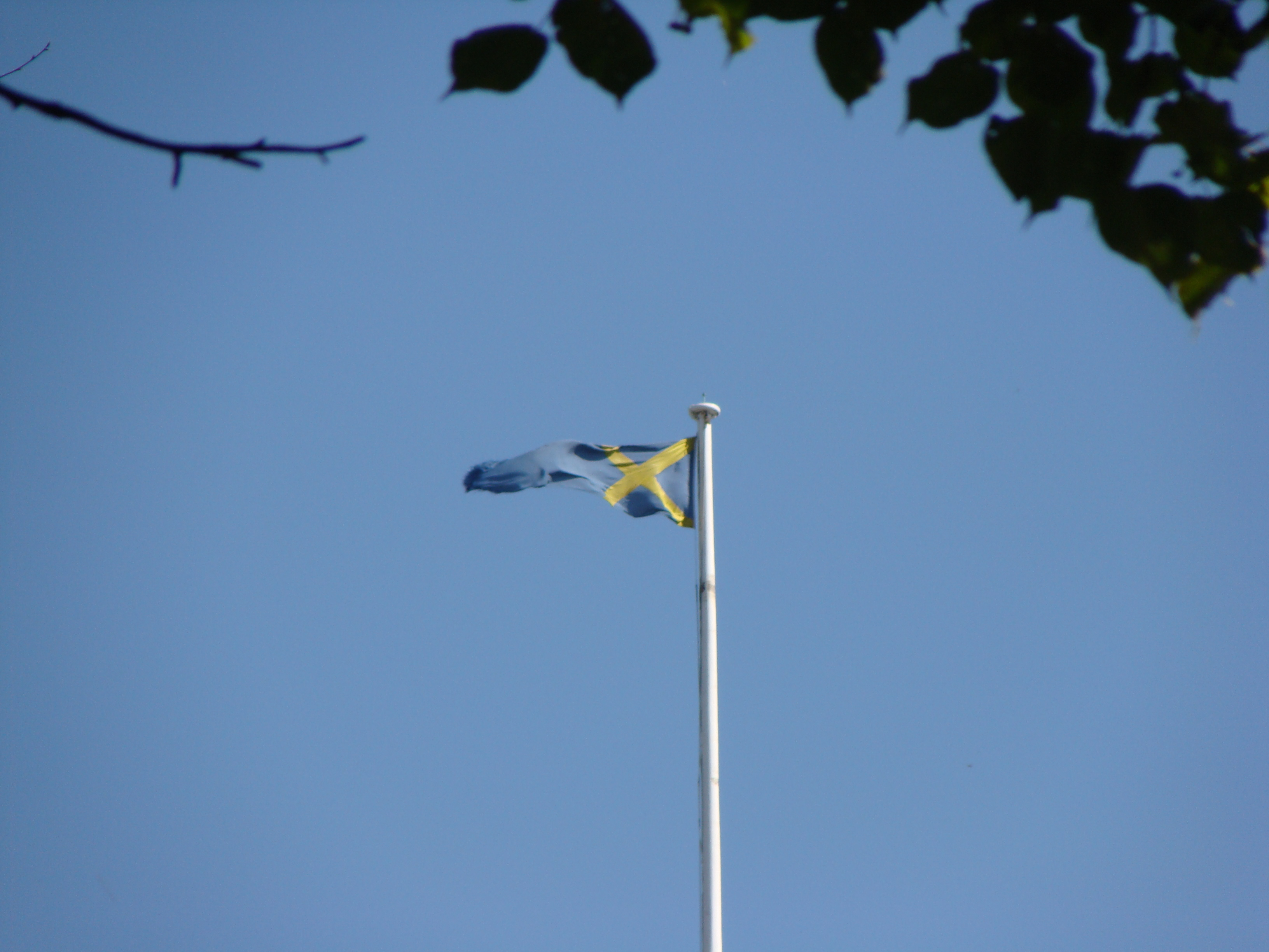 The flag of St Albans on the cathedral's tower (triangle version).